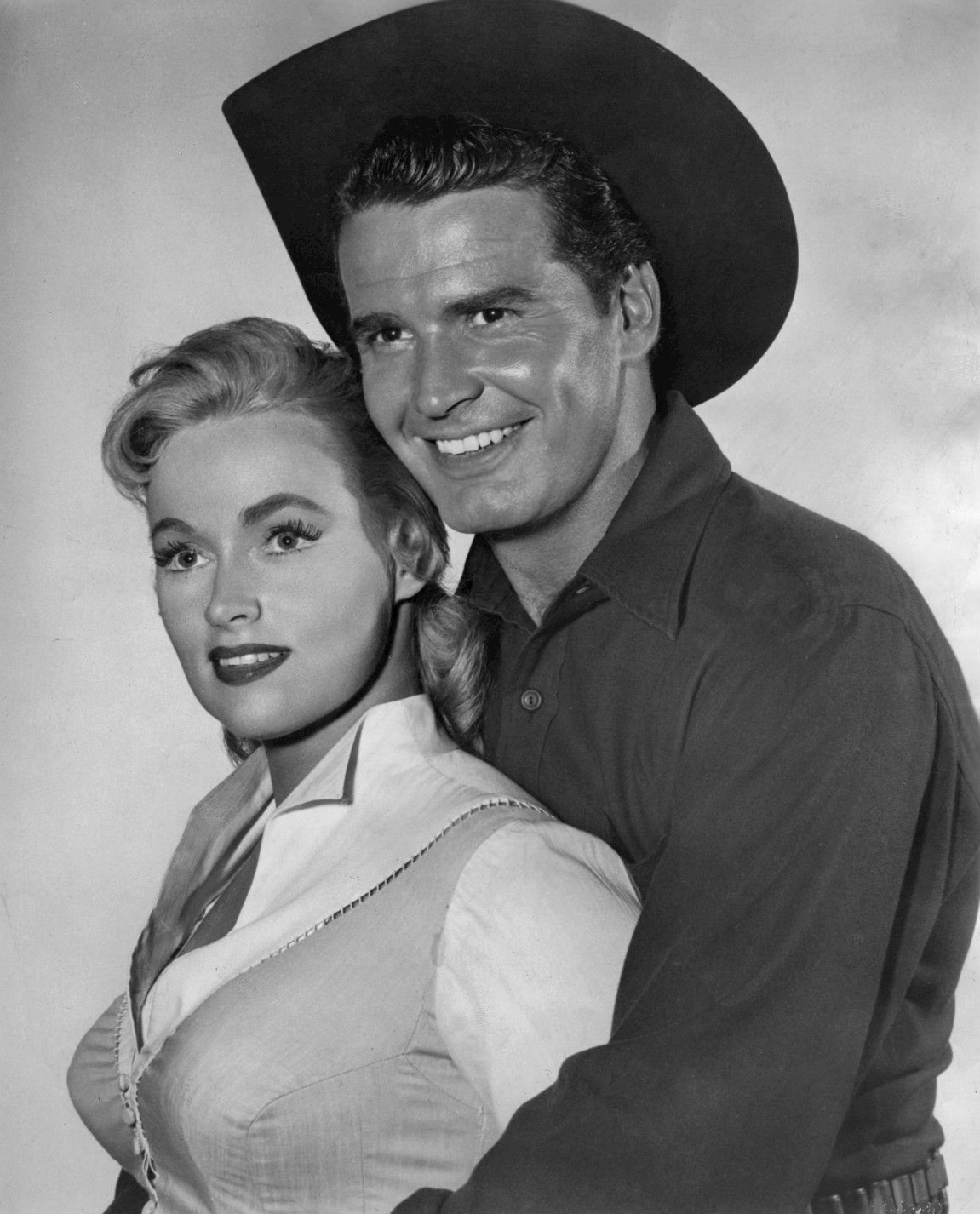 Photo of James Garner as Bret Maverick and Karen Steele from the first episode of Maverick.